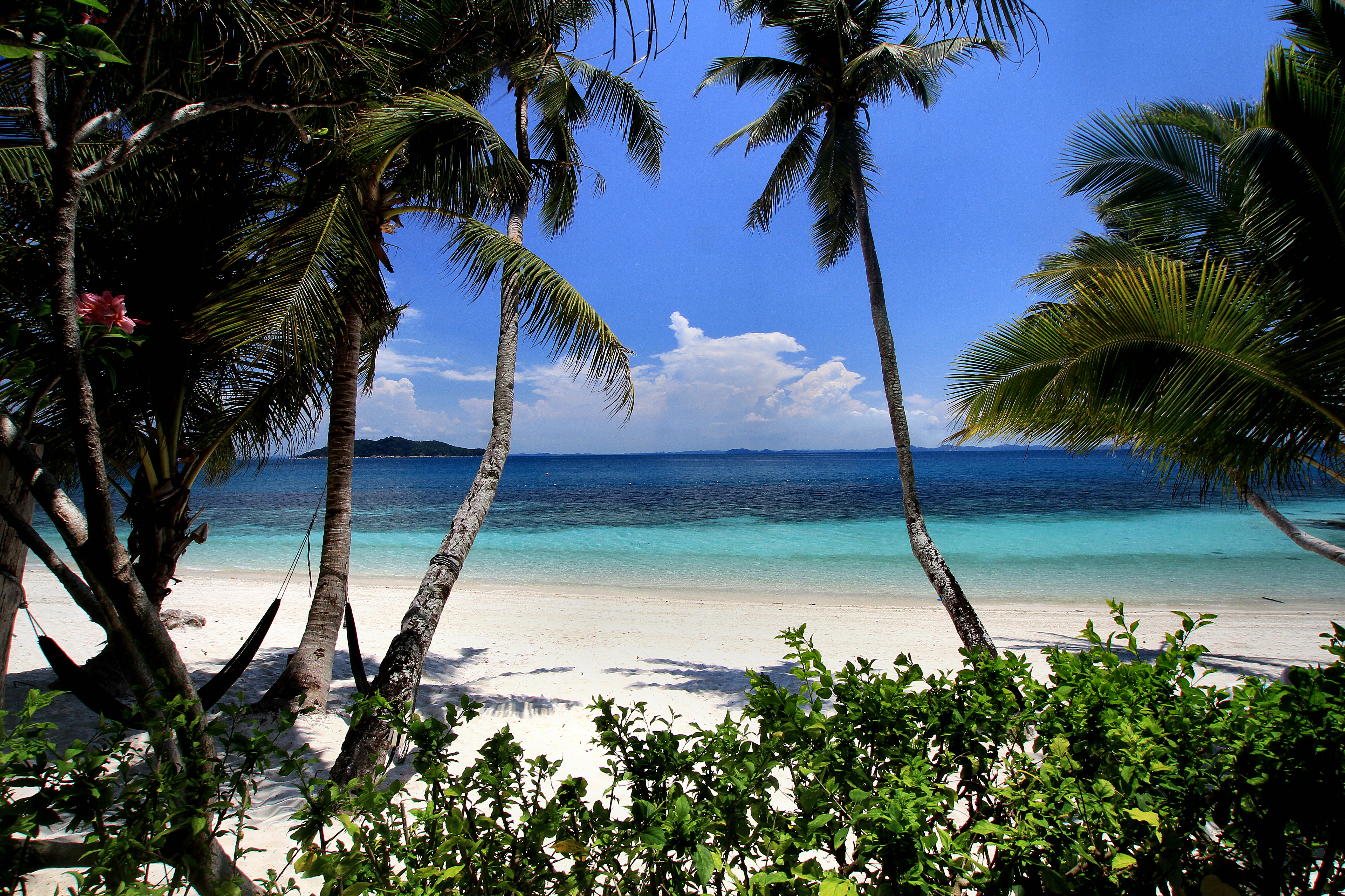 Rawa Island. Johor Darul Takzim. Malaysia Truly Asia.